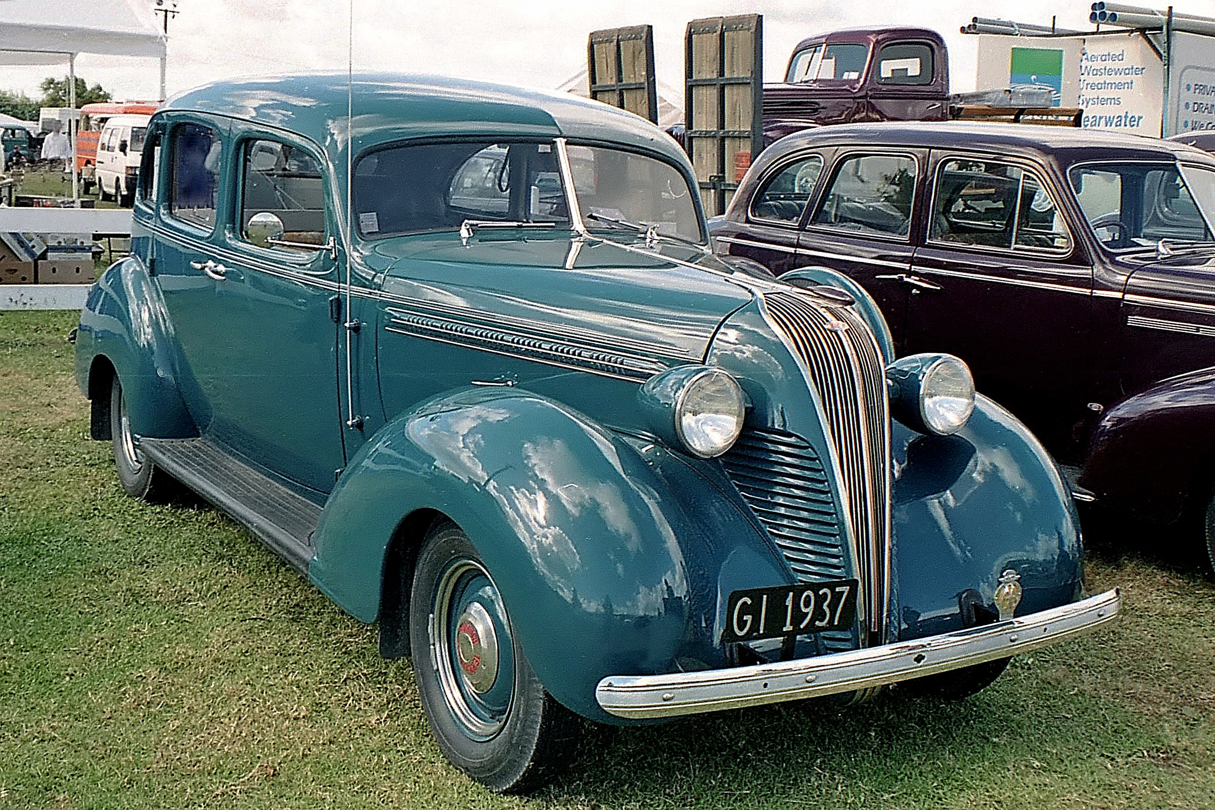 Pukekohe Swap Meet,South Auckland.New Zealand